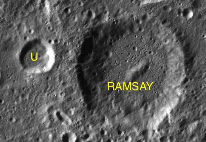 Part of the chart LAC-118 used for the presentation